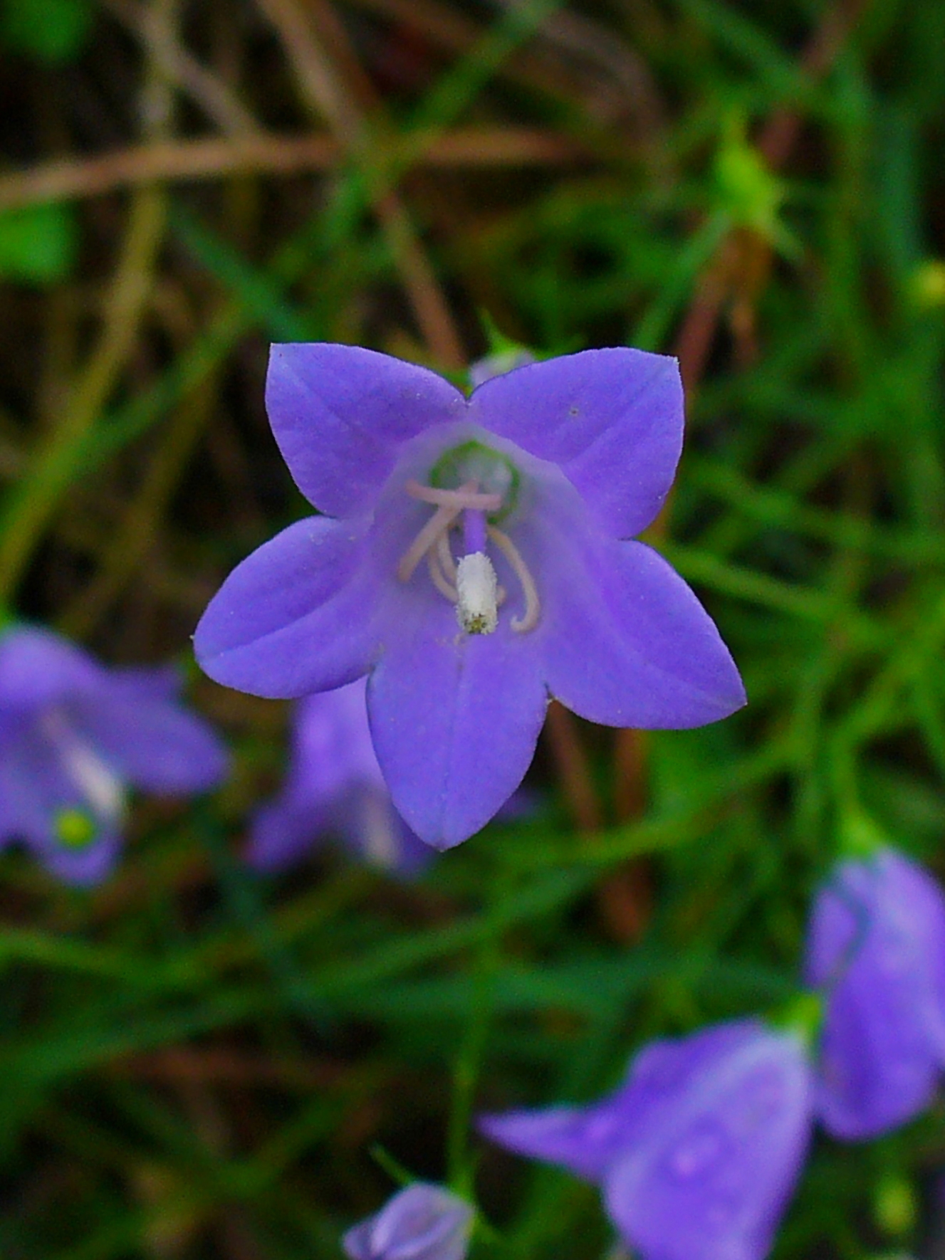 Campanula rotundifolia, Campanulaceae, Harebell, flower; Botanical Garden KIT, Karlsruhe, Germany. The plant is used in homeopathy as remedy: Campanula rotundifolia (Camp-ro.)